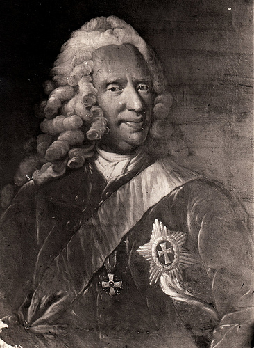 Otto Tagesen Thott (1703-1785)